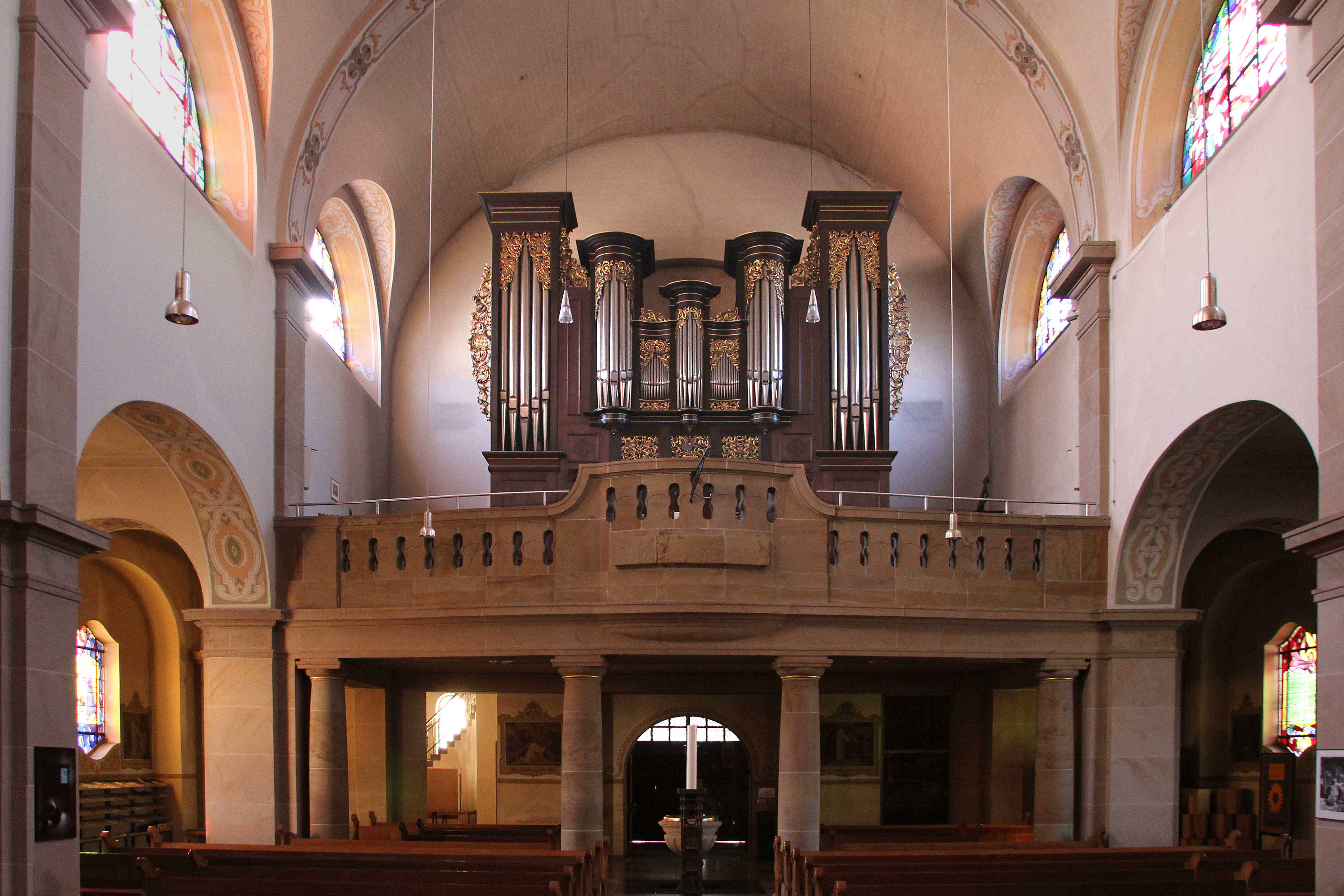 St. Maximin church in Koblenz